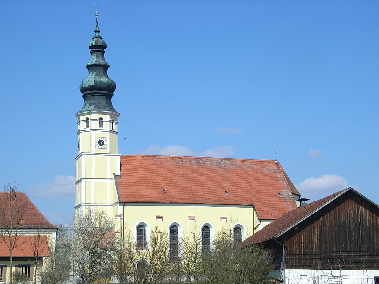 Sammarei, Sanctuary of the Assumption from south.